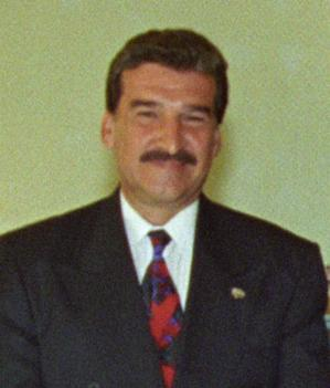 Ramiro de León Carpio on the State Floor of the White House